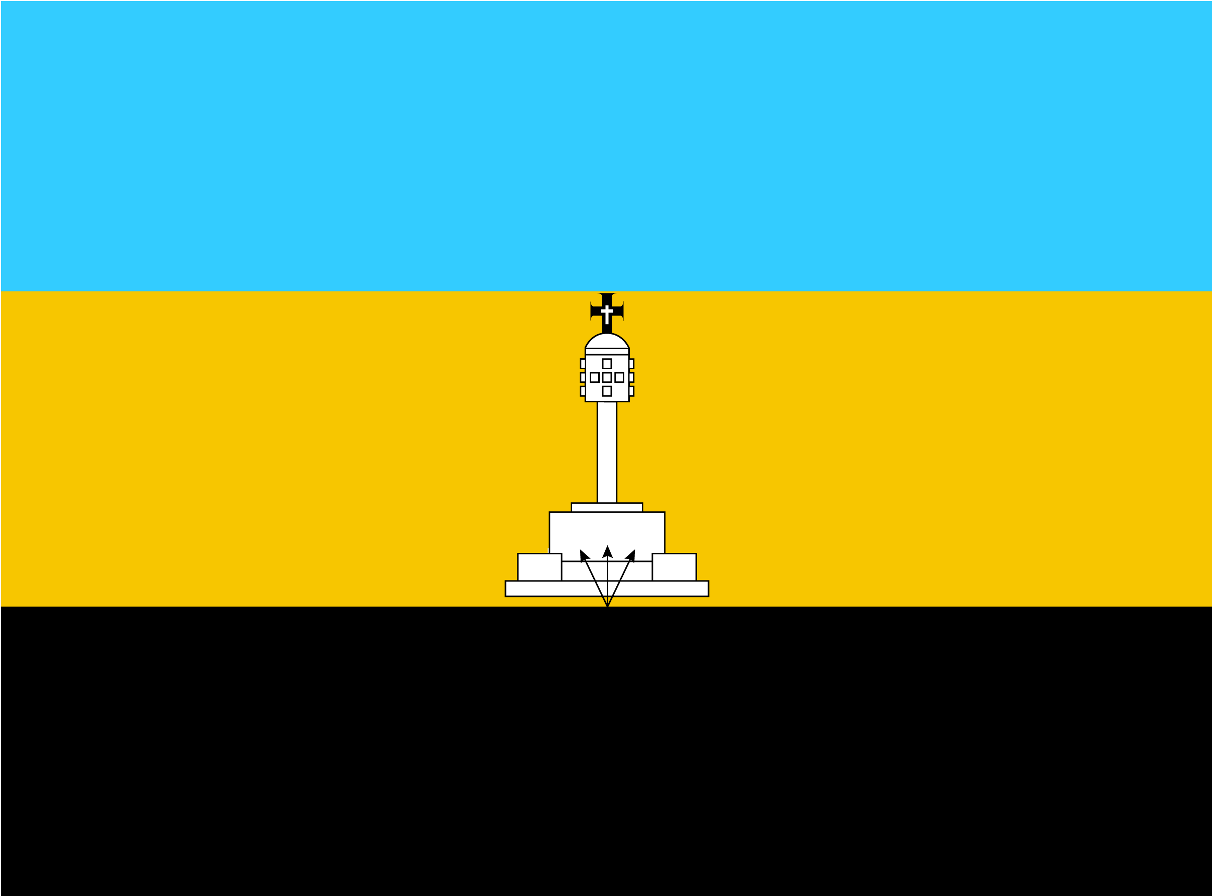 Cabinda Flag Officiel( F.L.E.C)